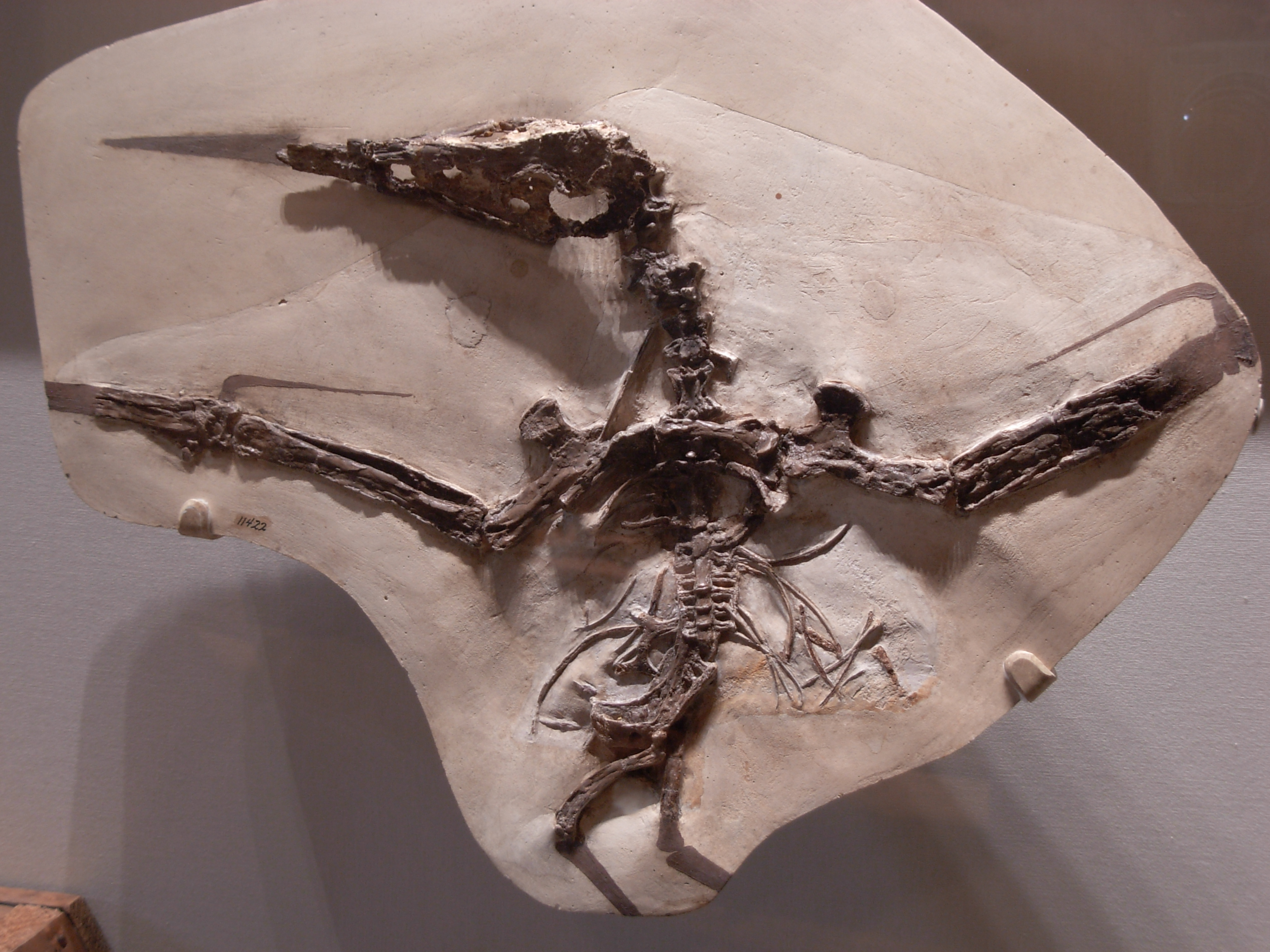 Fossil specimen, CM 11422, of Nyctosaurus gracilis